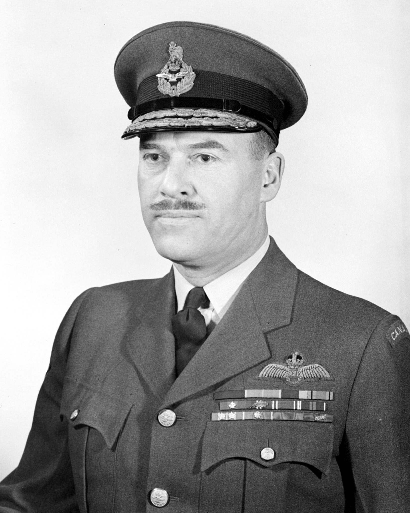 Air Marshal Charles Roy Slemon Commander Royal Canadian Air Force 1953-57